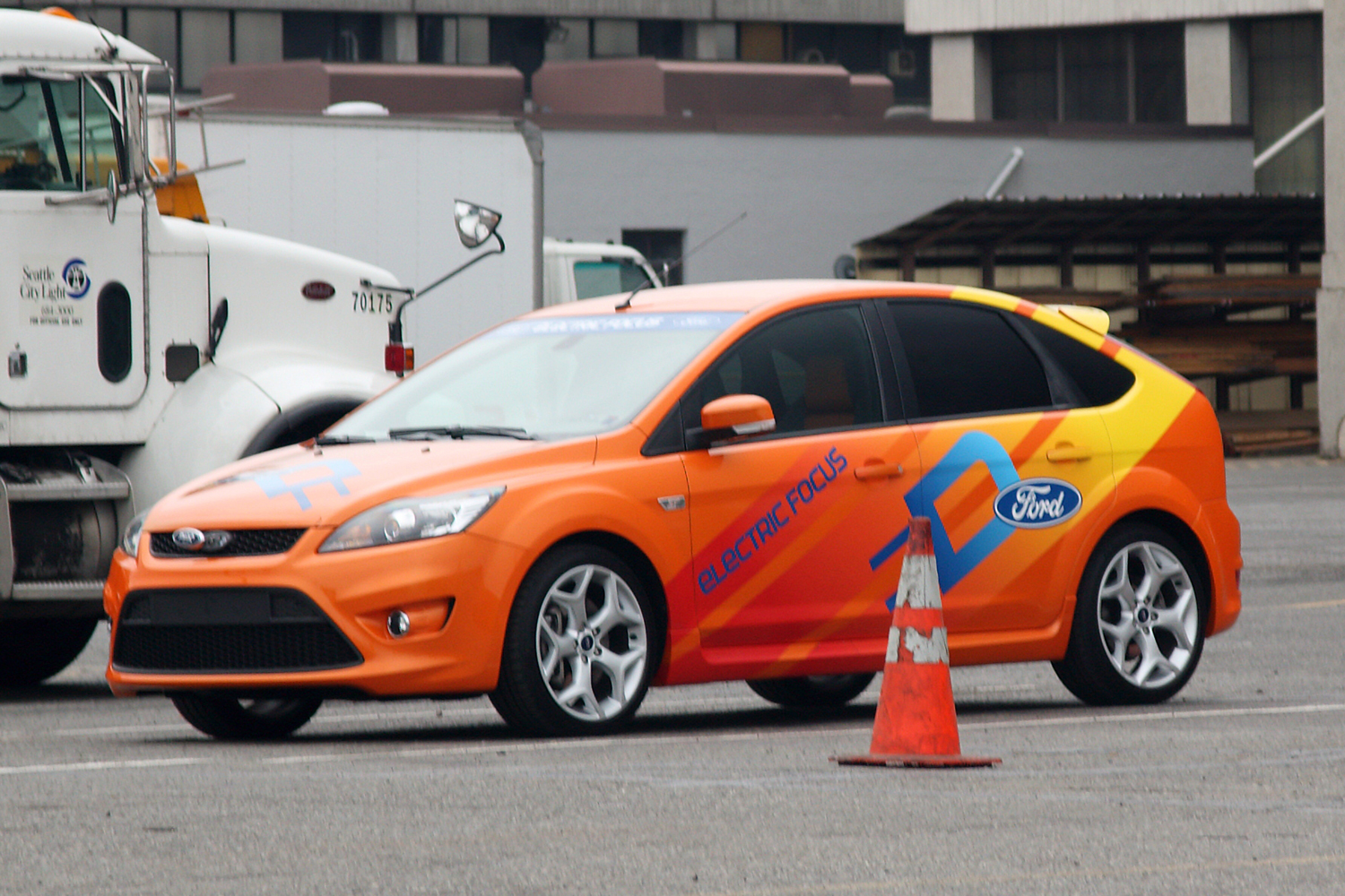 Ford Focus BEV demonstration car, similar to the one featured in the Jay Leno Show. This photo was taken at the Industrial District (Seattle City Light's facility at 4th Ave S & S Spokane St.), Seattle, WA, US.